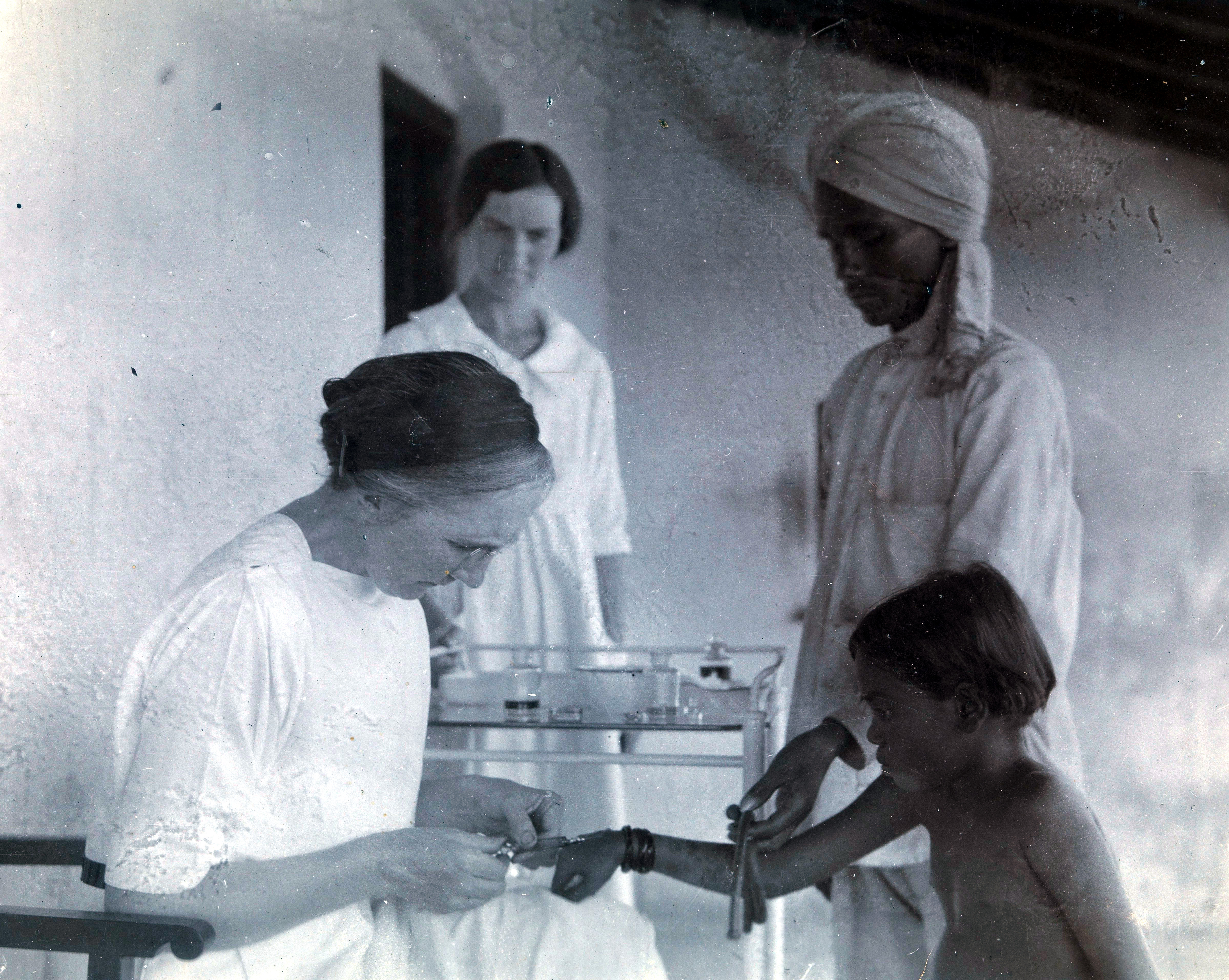 Dichpali, Hyderabad: Dr Isabel Kerr a European woman doctor vaccinating a child in the leprosy hospital. Photograph, 1926. Iconographic Collections Keywords: Isabel Kerr